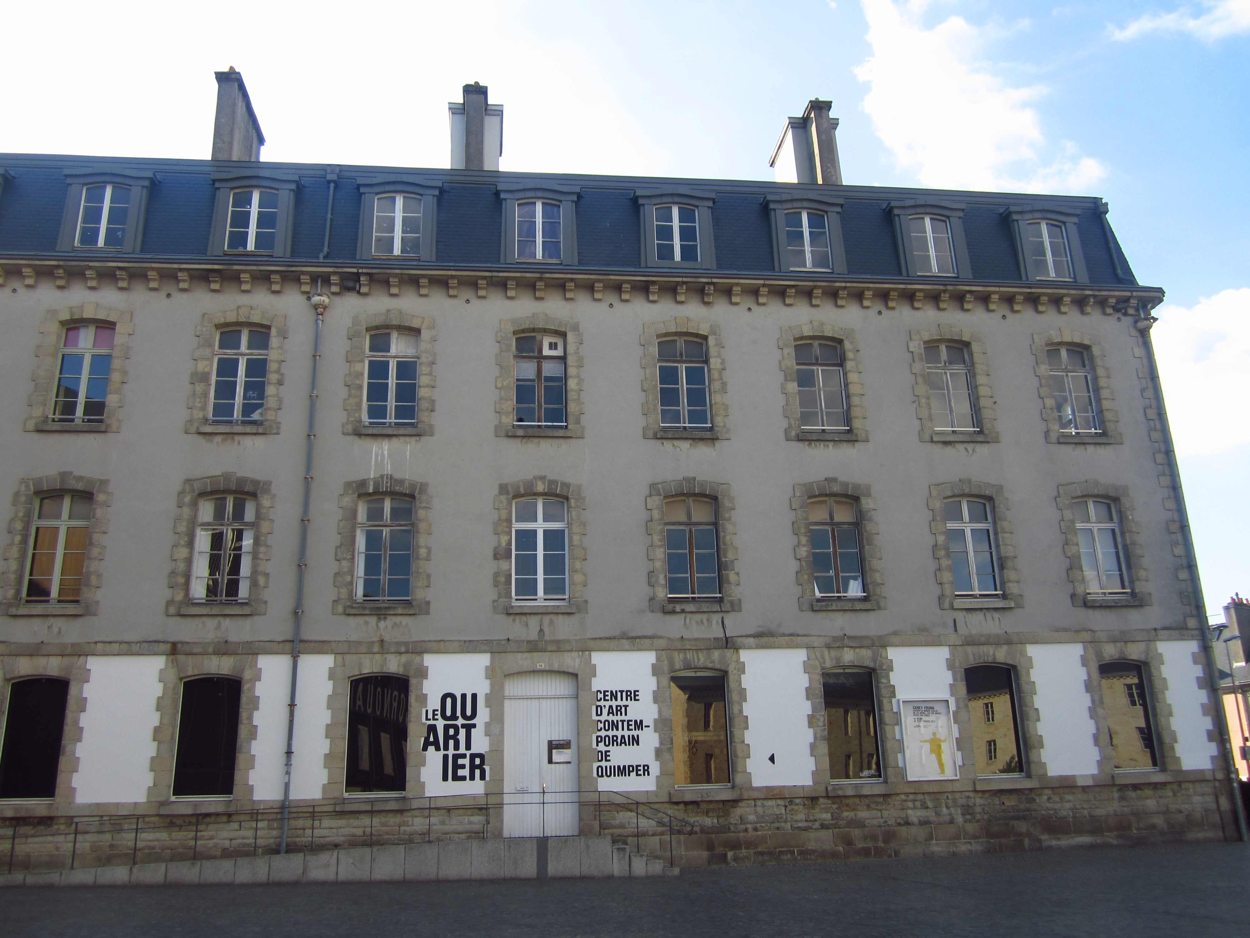 Le Quartier, contemporary art museum, Quimper